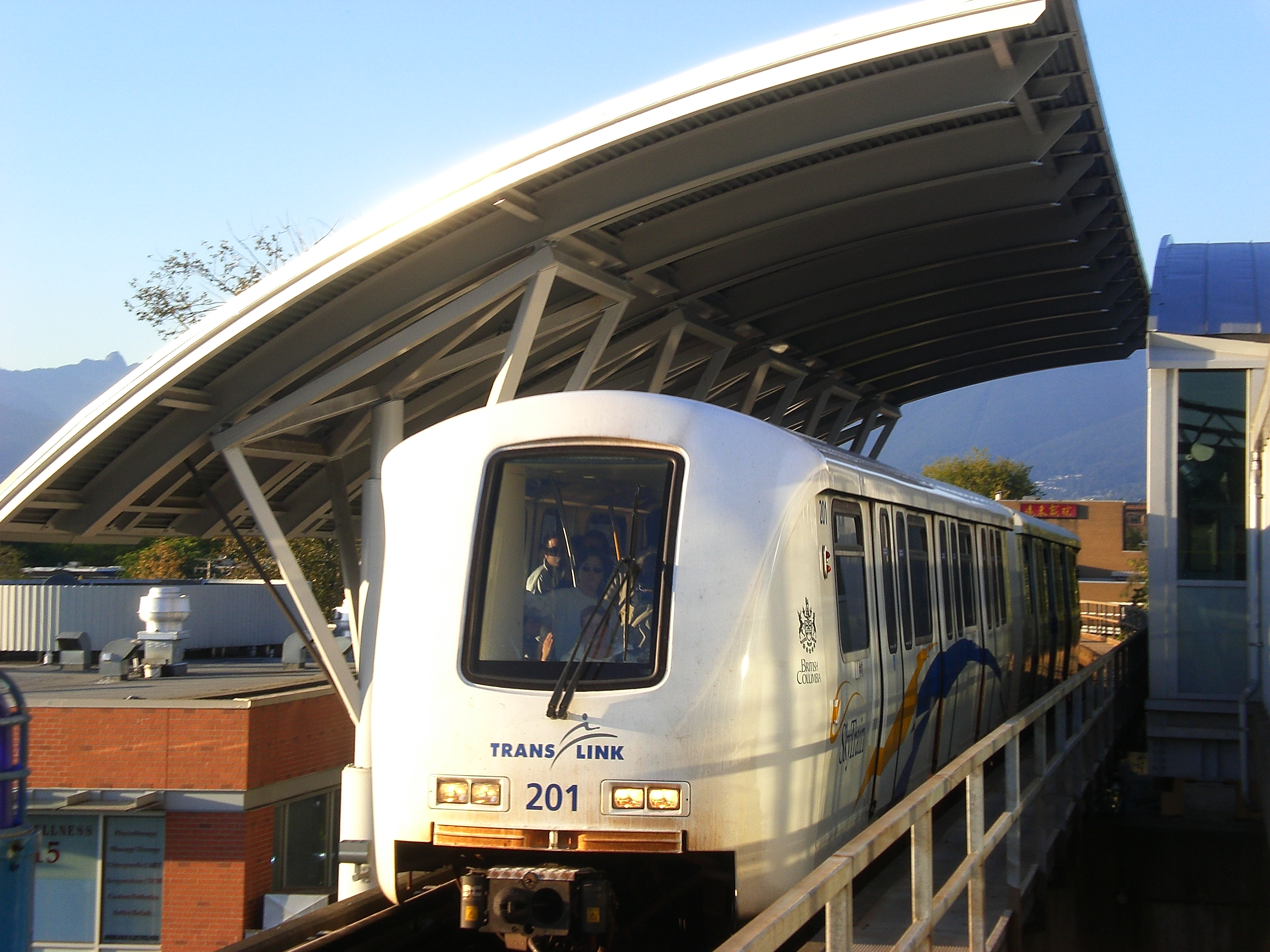 MK II Train entering Broadway platform eastbound.